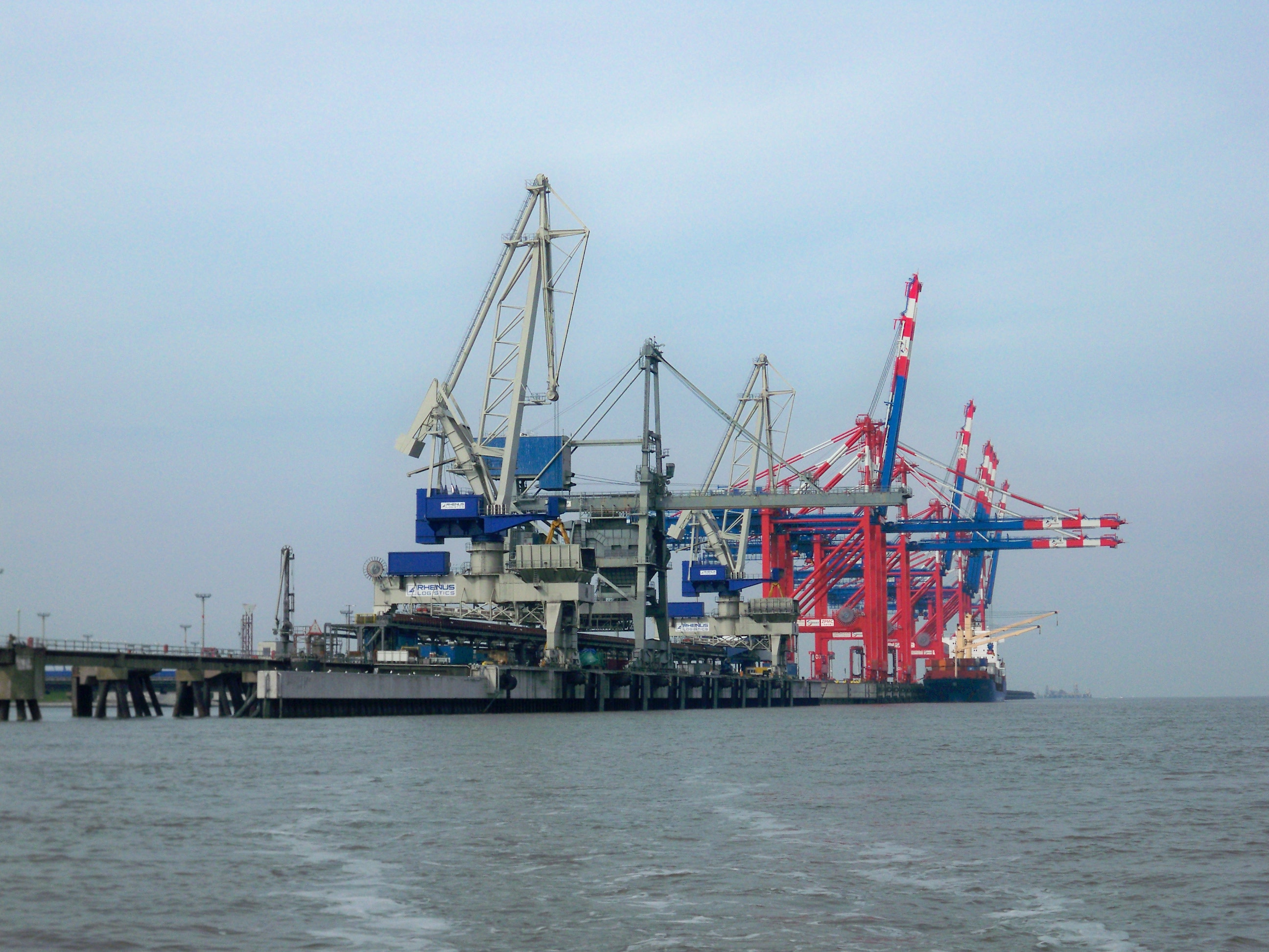 Bulk jetty Niedersachsenbrücke and JadeWeserPort (Container Terminal Wilhelmshaven (CTW))